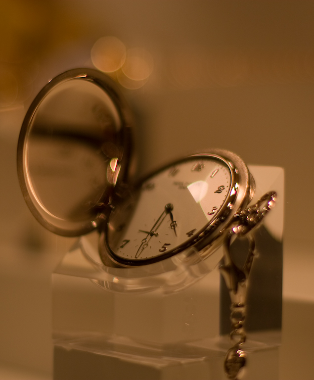 Tiffany's Patek Philippe Watch Collection, in New York, on the opening of their Patek Philippe watch store.